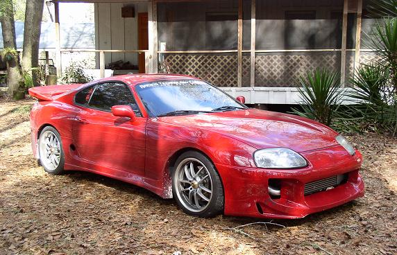 A 1994 Toyota Supra with a Bomex body kit. I took this picture, I own the car. I hold the copyright.